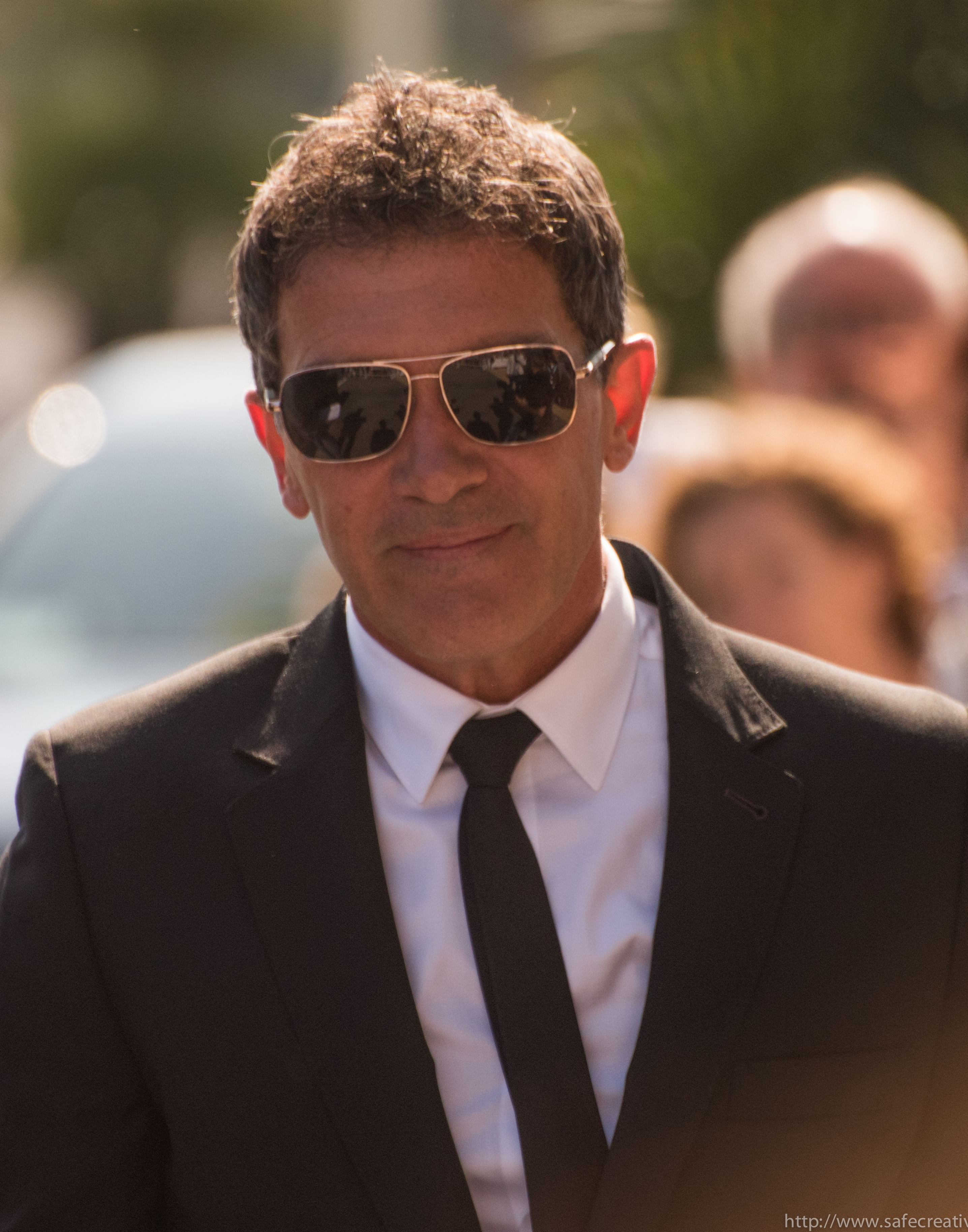 Mr. Antonio Banderas during his visit to 65th International Film Festival in San Sebastian, Spain